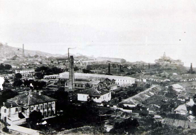 Foochow arsenal in Mawei